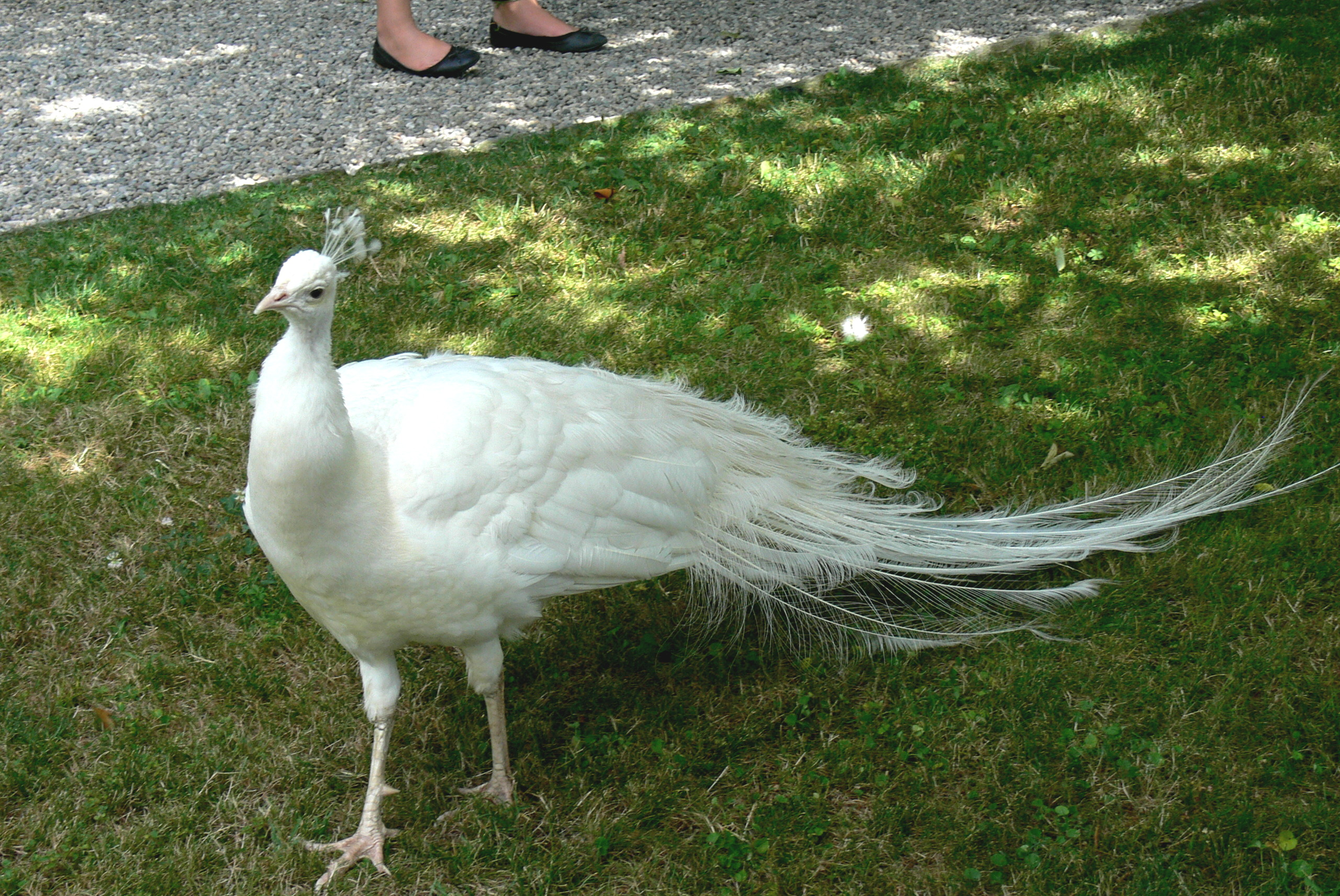 Isola Madre ( Lago Maggiore ). Botanical Gardens: White peacock.